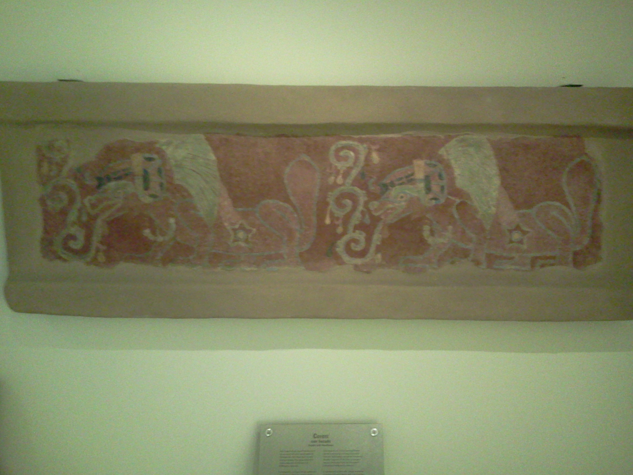 Mural of Teotihuacan